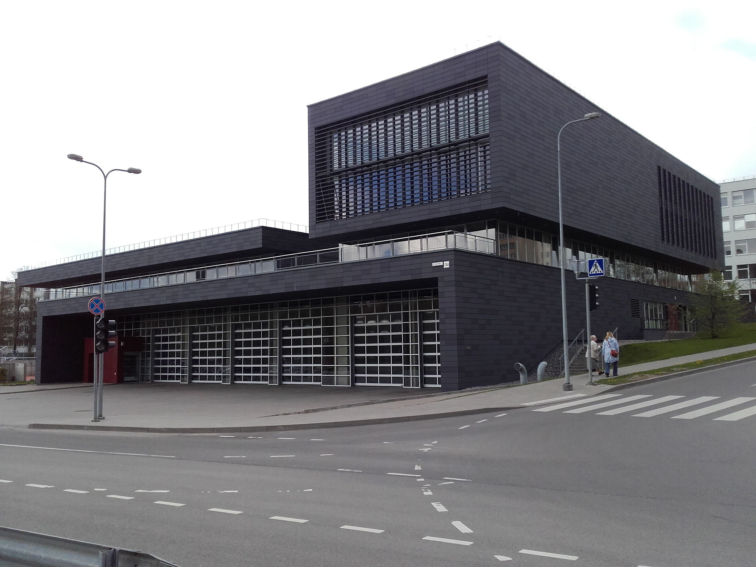 Emergency Responce Center in Vilnius